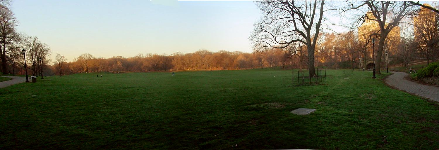 Long Meadow, Looking south from Endale Arch, Prospect Park, Brooklyn, NY, April 16, 2005